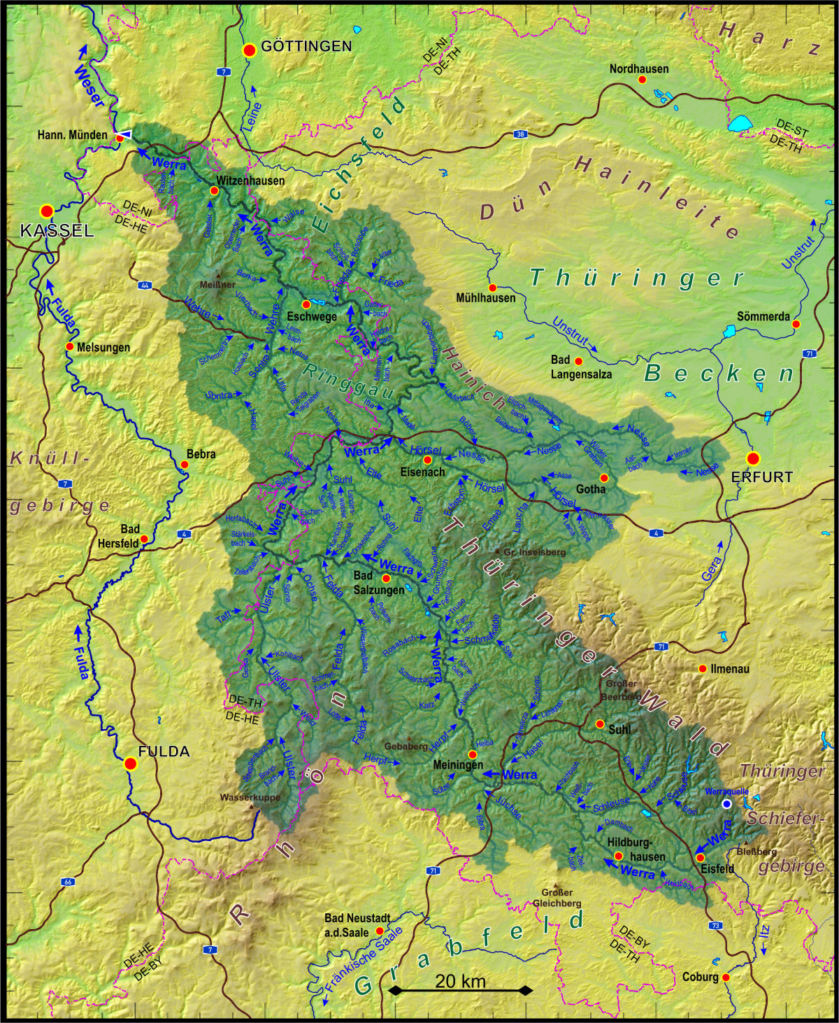 Catchment area of the Werra river